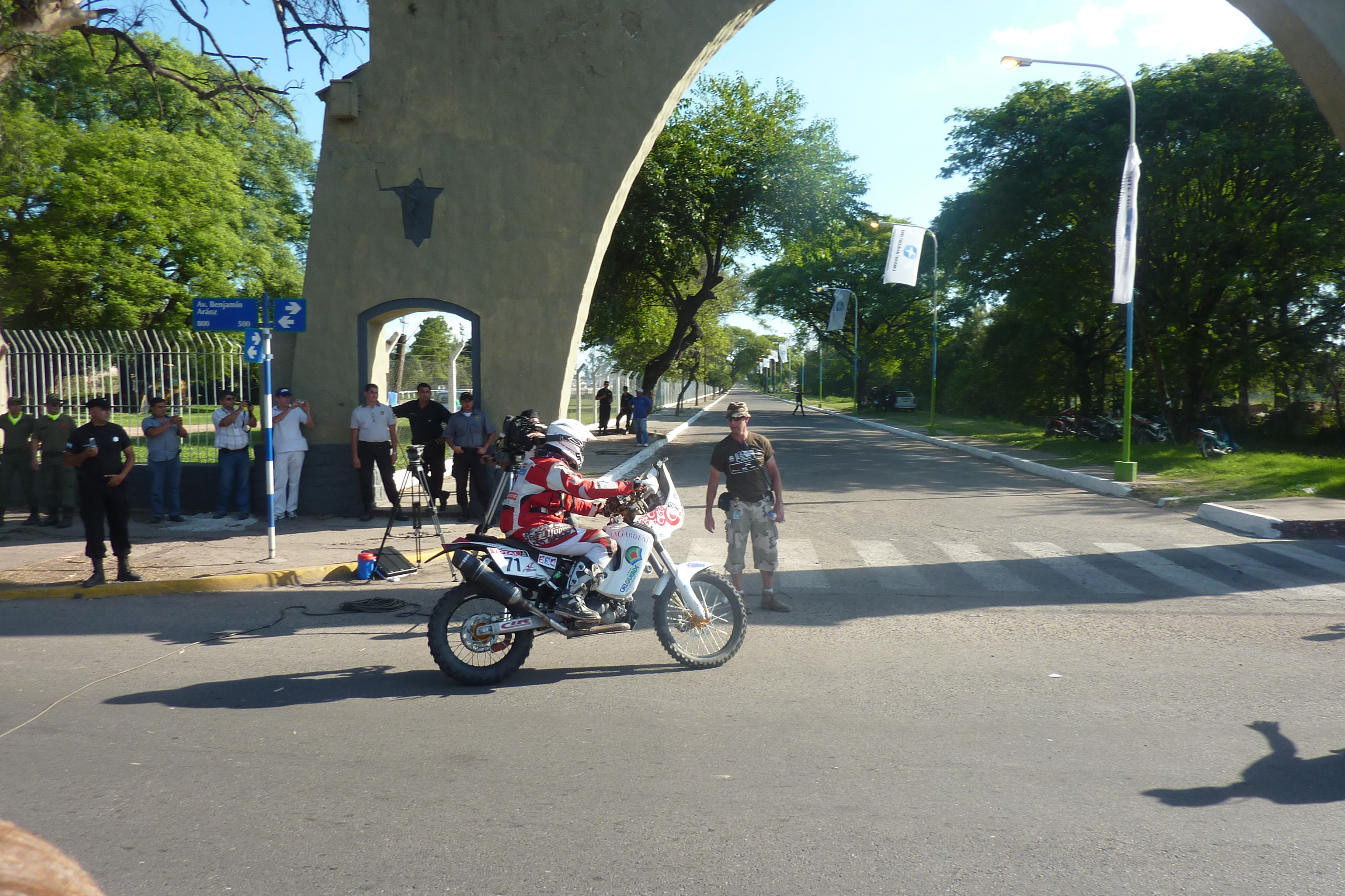 A KTM EXC 525 during the 2011 Dakar Rally. The photo was taken after the 2nd stage in San Miguel de Tucumán. The driver of the bike is Silvia Gianetti.